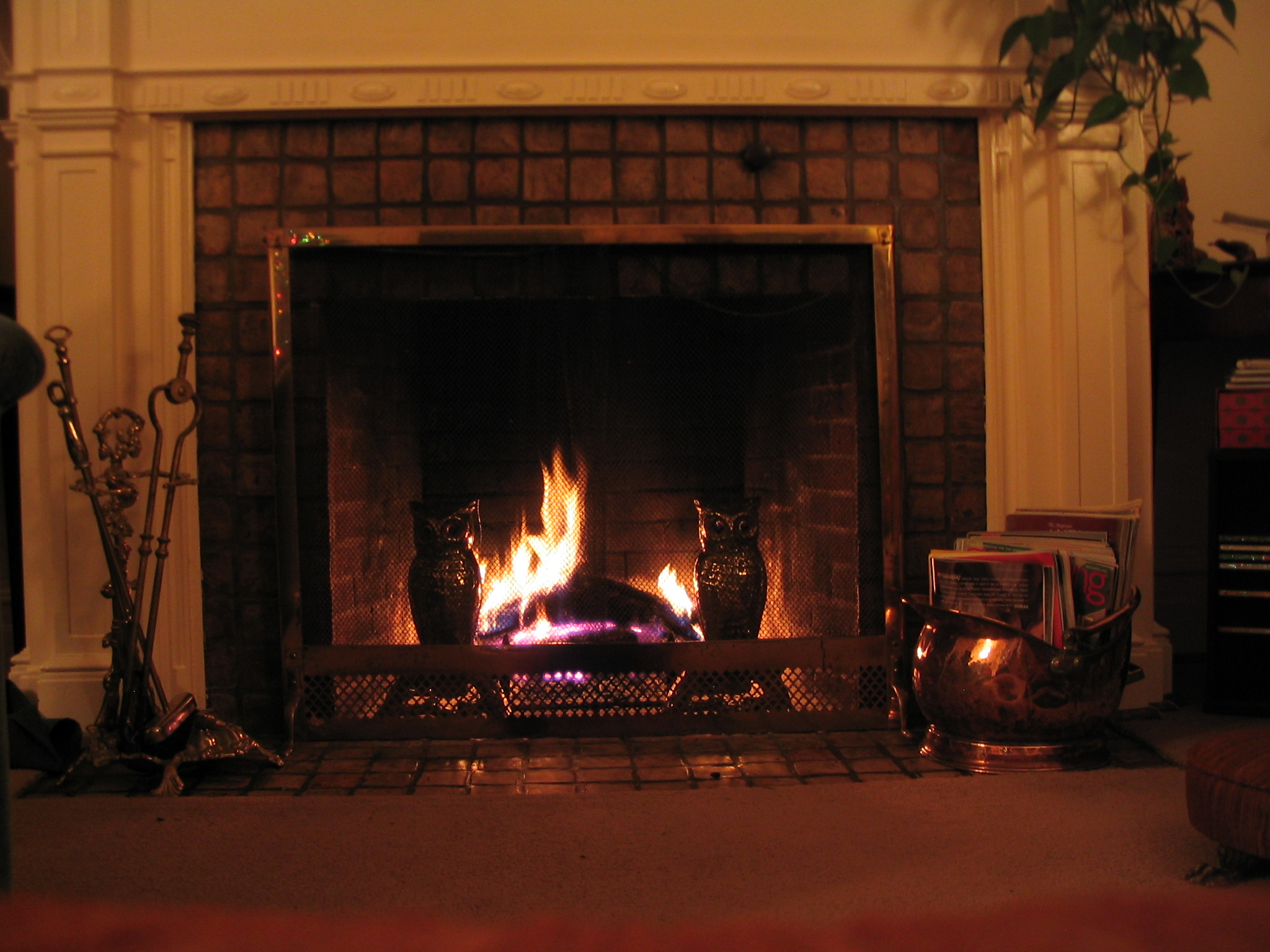 The fireplace